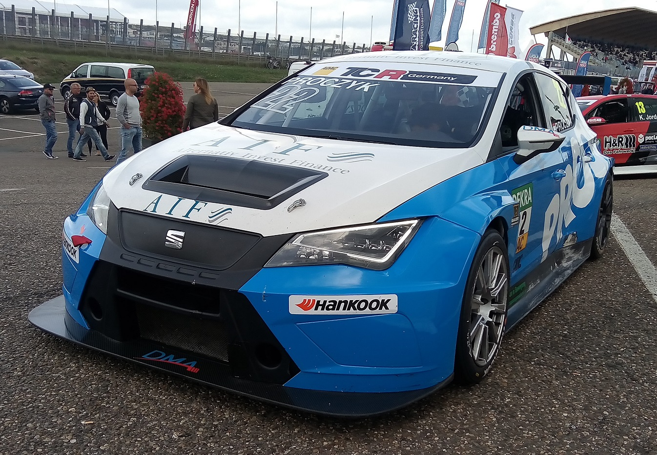 Harald Proczyk at the 2017 ADAC TCR Germany Championship round at Zandvoort.